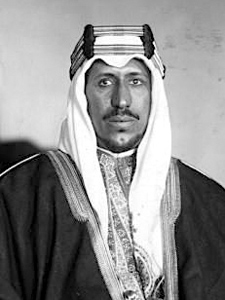 A photo of Saud bin Abdulaziz Al Saud. He was King of Saudi Arabia from 1953 until he was deposed in 1964.